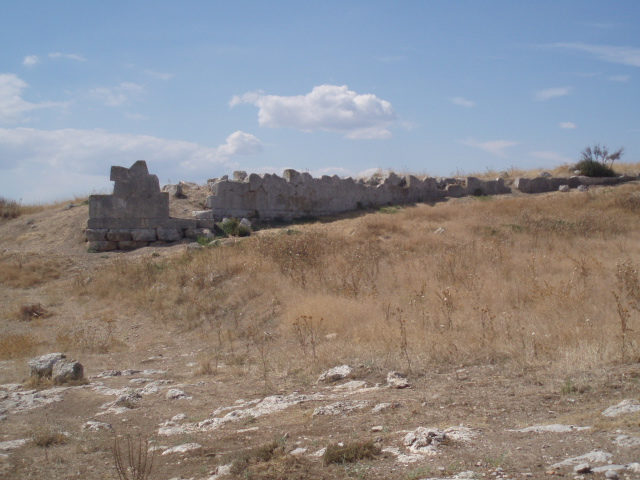 Mycenean walls in Arma, Boeotia, Greece